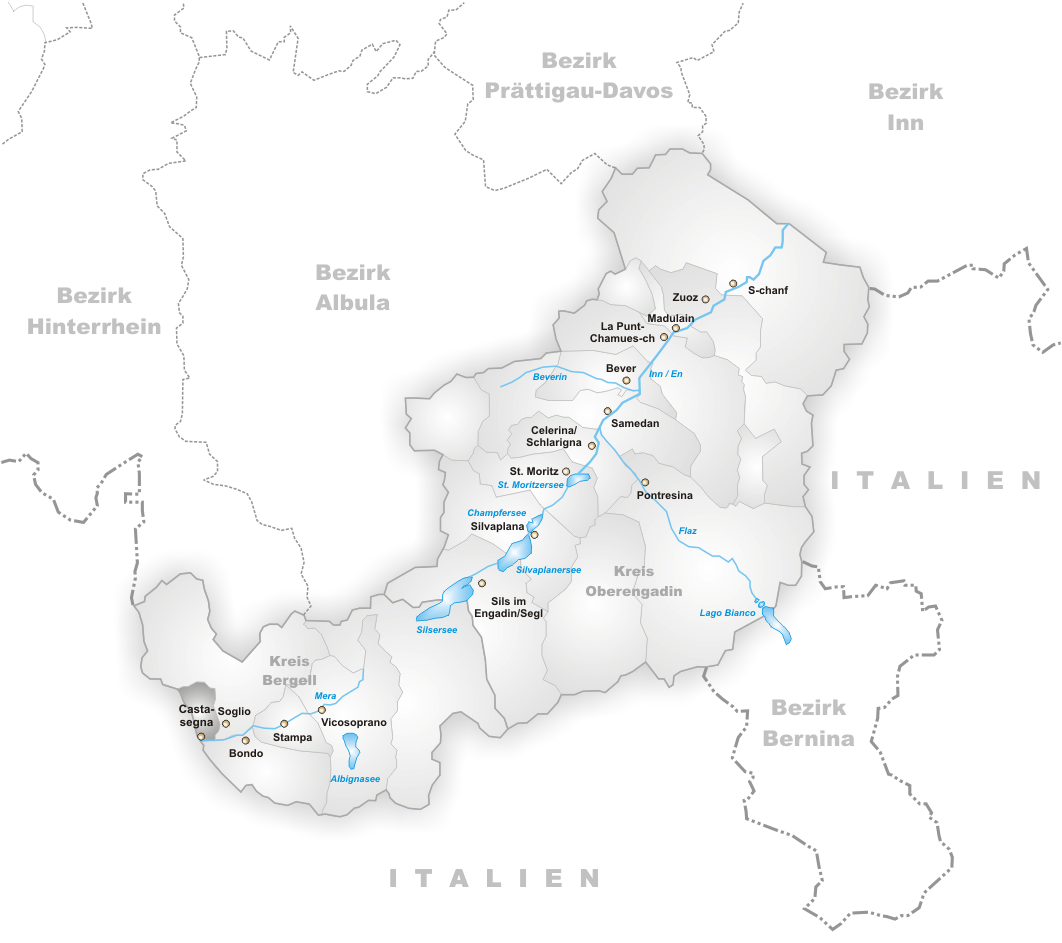 Municipality Castasegna